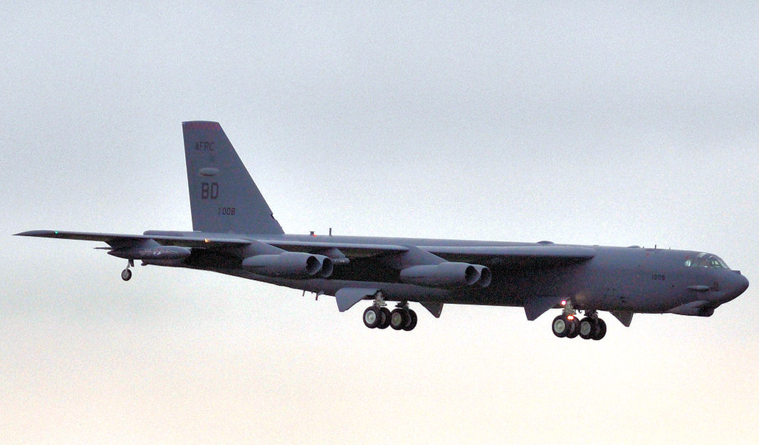 Capt. Casey Gough, 93rd Bomb Squadron pilot, waves to the crew of a B-52 Stratofortress as they prepare to land at the Ostrava Airport in the Czech Republic, Sept. 20, 2011. The B-52, from the 93rd Bomb Squadron, 307th Bomb Wing, Barksdale Air Force Base, La., arrived in the Czech Republic to participate in the North Atlantic Treaty Organization Days in Ostrava air show, which is scheduled for Sept. 24-25, 2011, at the Leos Janacek Ostrava Airport, Ostrava, Czech Republic. (U.S. Air Force photo by Tech. Sgt. Jeff Walston/Released)